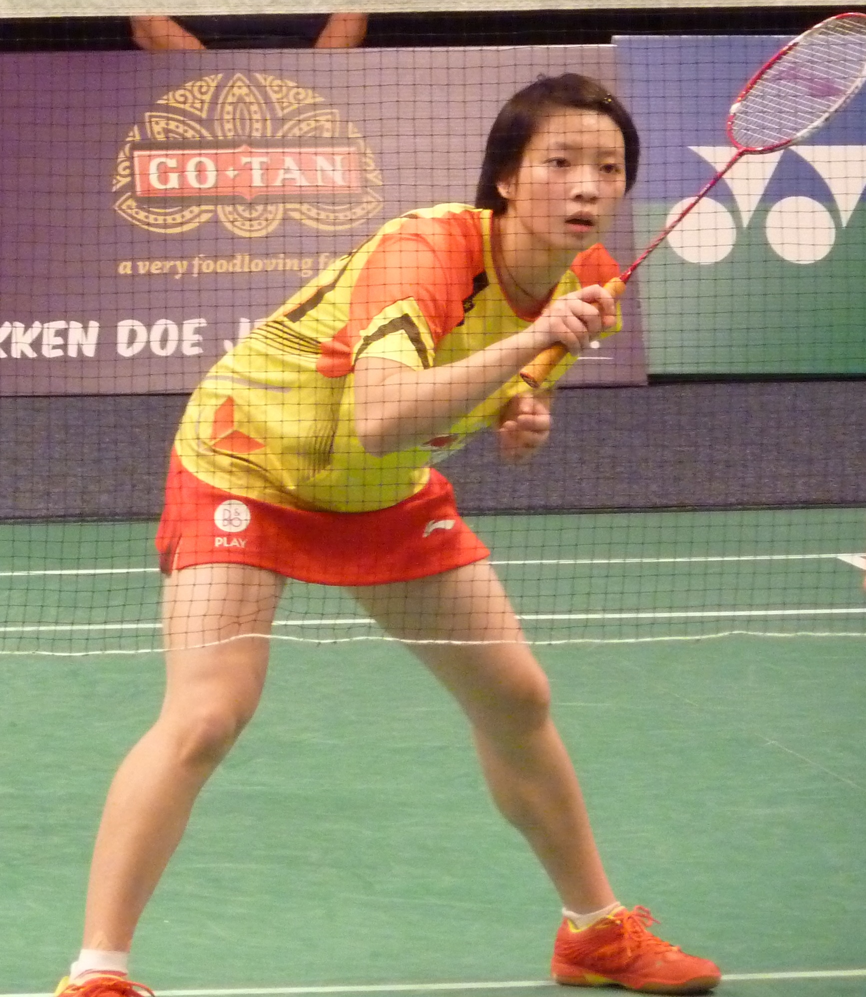 Huang Yaqiong (CHN)